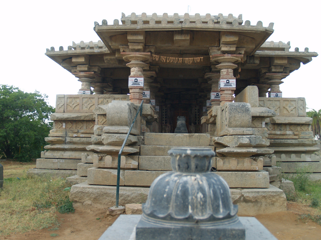 These are the picture of a temple in Domakonda, Nizamabad-Dist. This is a very old stone carved temple.